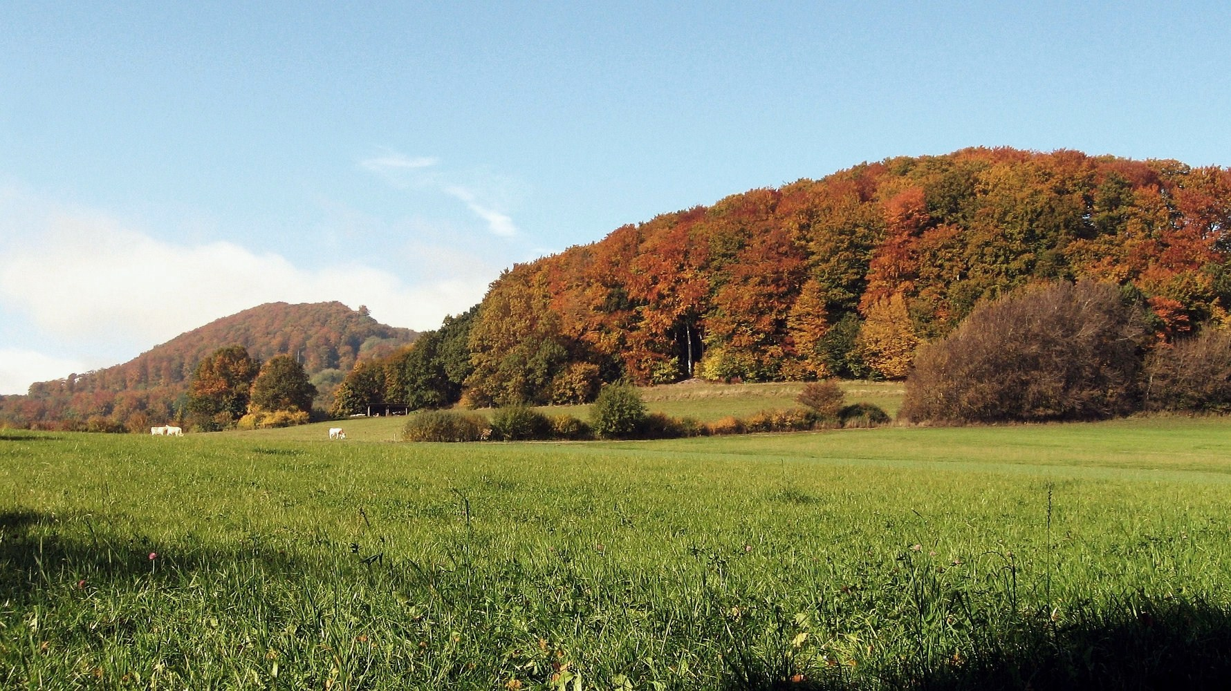 Germany / North / Hesse: mountain "Hohlestein" near Kassel